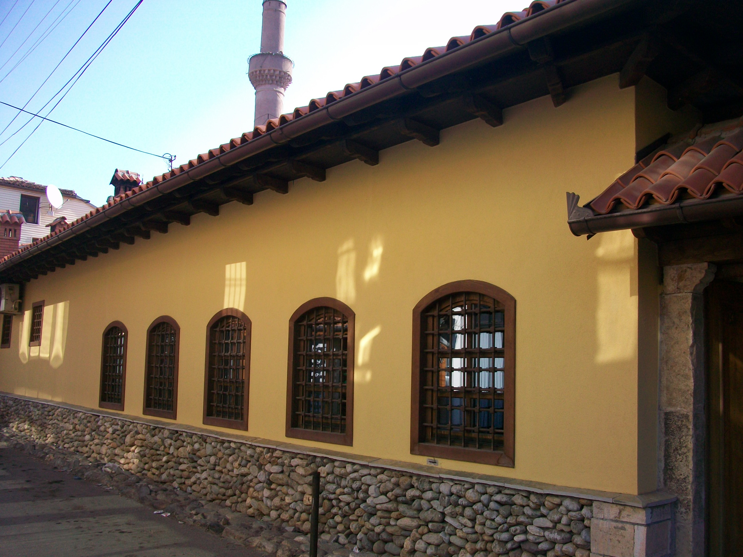 Pictures from Prizren Kosovo